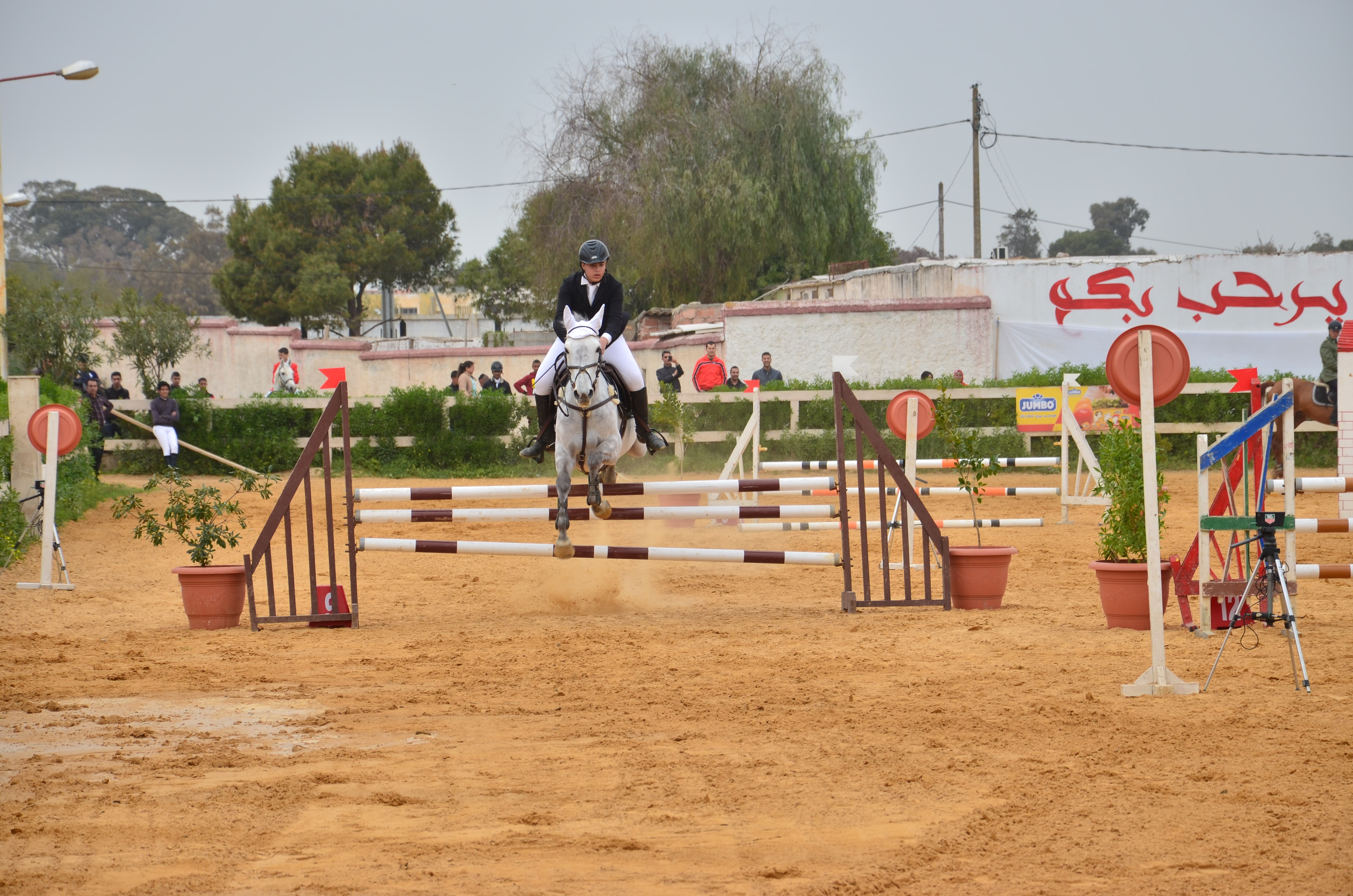 This is an image with the theme "Play" from: Algeria